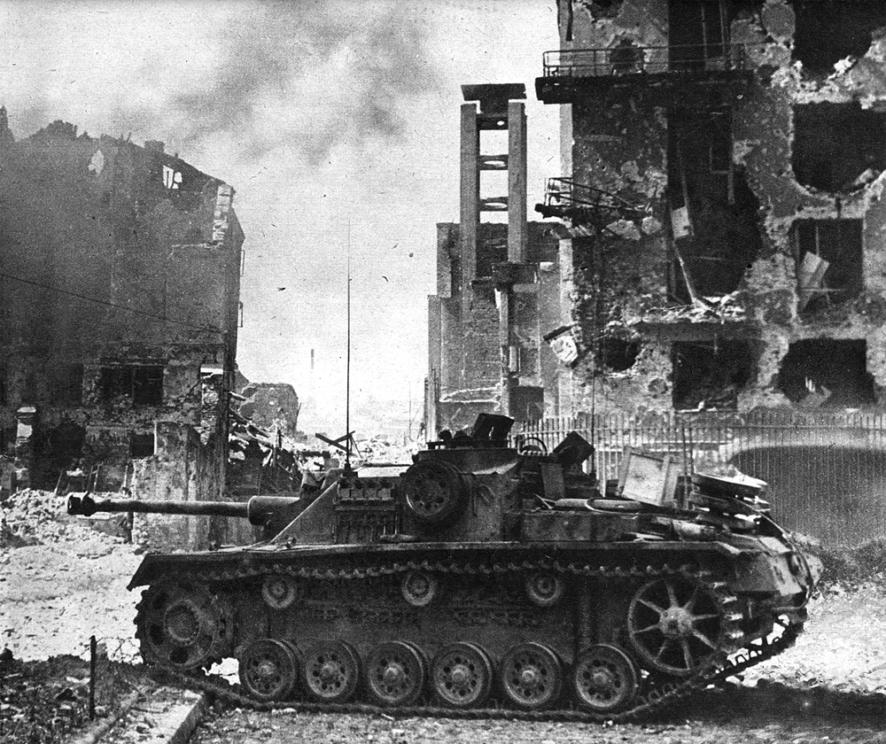 Warsaw Uprising: StuG III Ausf. G (Sd.Kfz 142/1) assault gun at the junction of Rybaki and Zakątna Street in Old Town, during German attack of capitan Schmidt unit on Polish Mint .